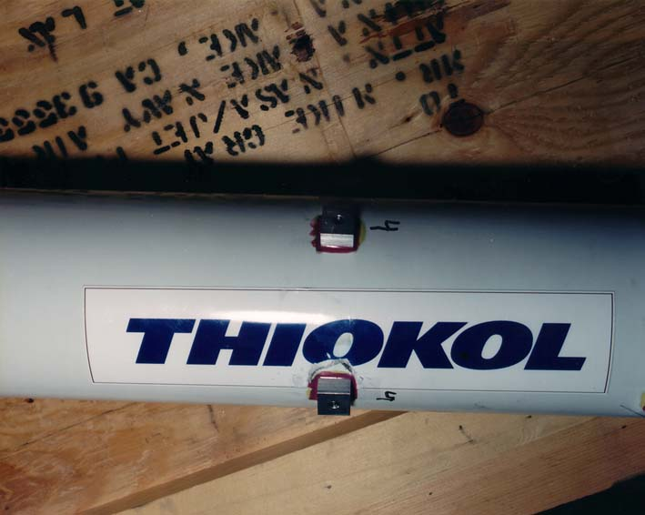 RAD (Rocket Assisted Descent) rocket built by Thiokol for NASA Mars Pathfinder mission.